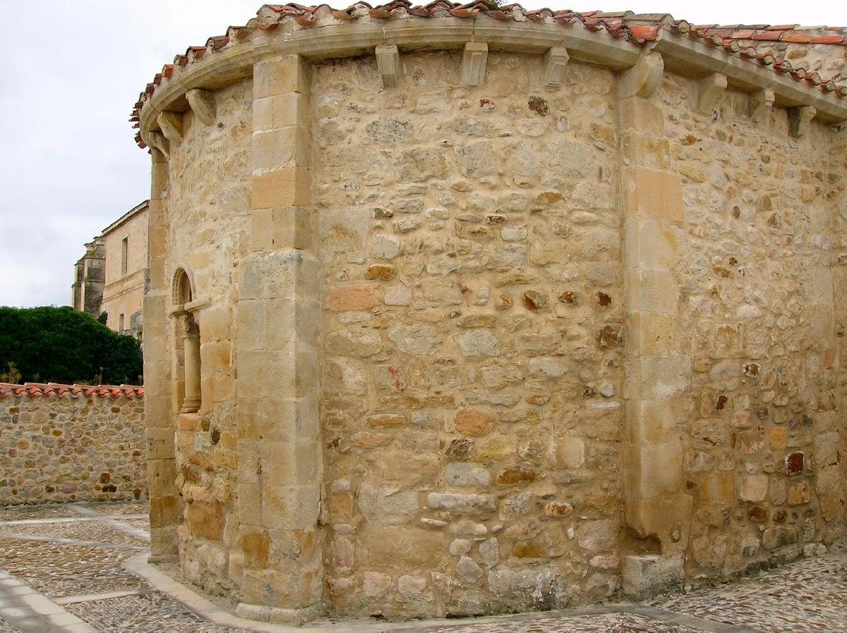 Ermita en Medina de Pomar (Burgos, Castilla y León, España)